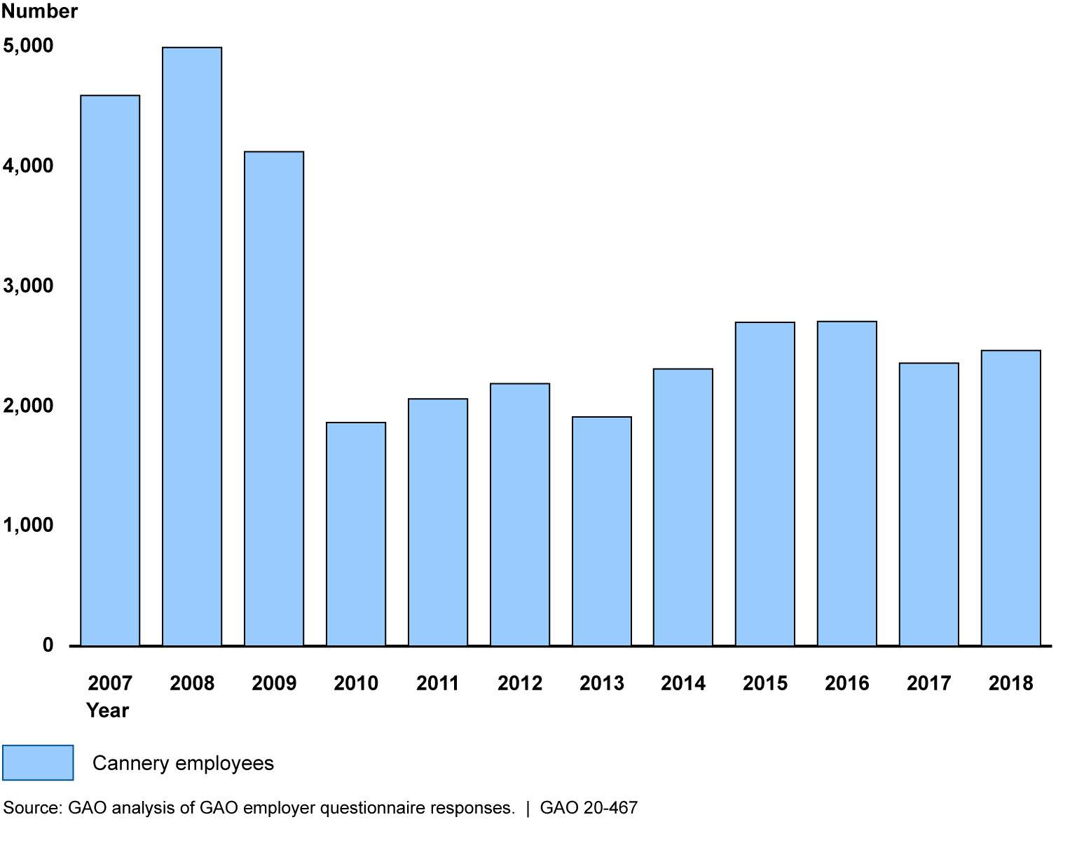 This image is excerpted from a U.S. GAO report: AMERICAN SAMOA: Economic Trends, Status of the Tuna Canning Industry, and Stakeholders' Views on Minimum Wage Increases